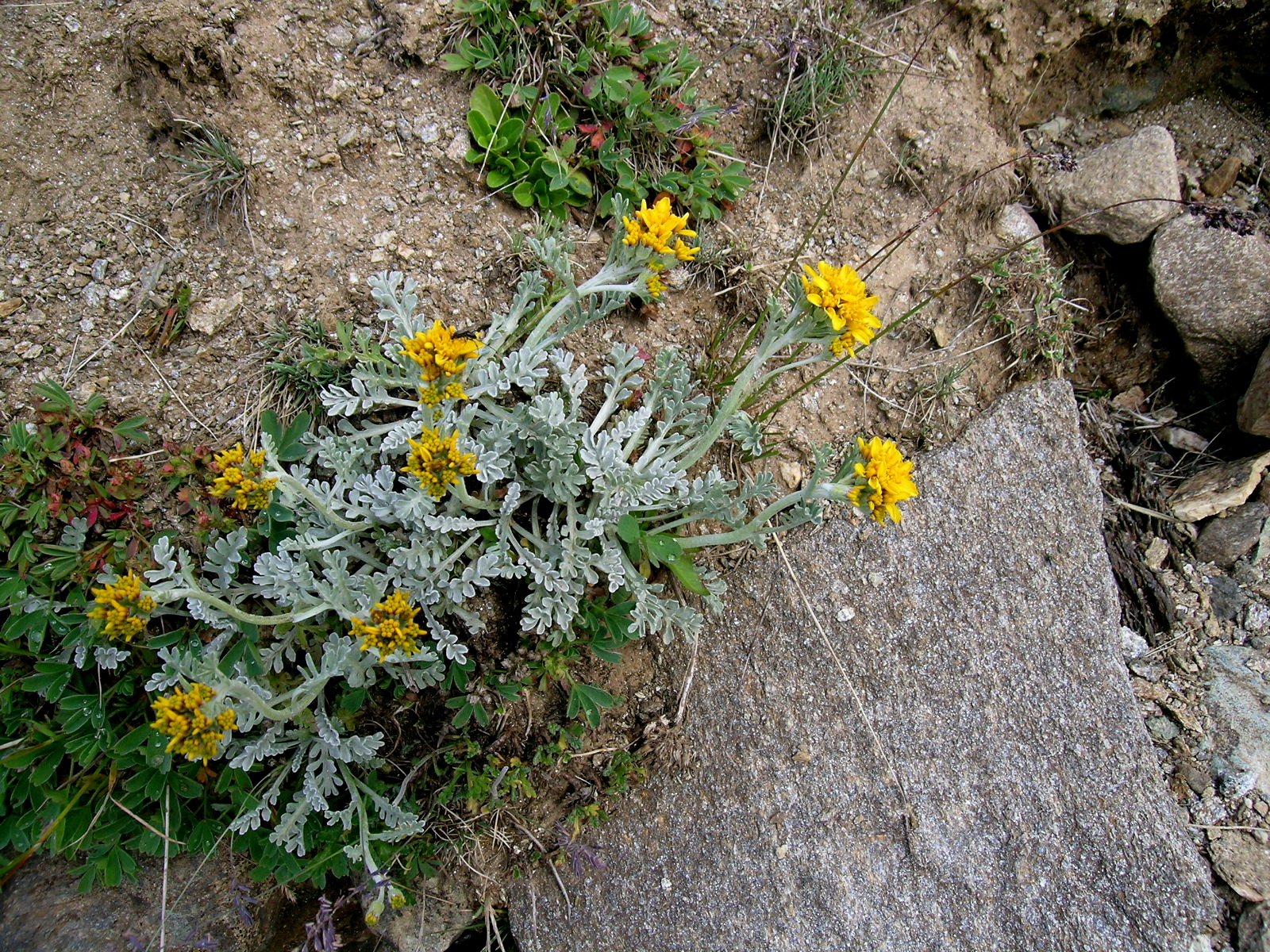 Senecio incanus Zermatt, Riffelberg (Kanton Wallis, Switzerland), 2500 m Author: Roland Teuscher – own photograph Date: 3.08.06